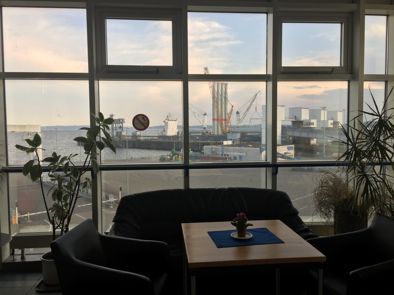 View from the club to the ships in 2016